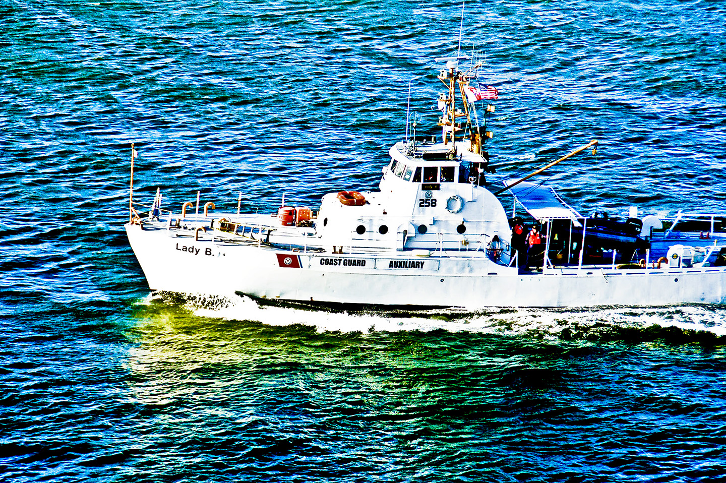 The Lady B, formerly the USCGC Point Brown, in NYC. Original caption: USCG Auxiliary Facility Lady B (The former USCG Cutter Point Brown) owned by Auxiliarist Stew Sutherland, Flotilla 14-1 was photographed by Guenther Hennig while on a cruise. The MV Grand Princess was docked at the Brooklyn Passenger Terminal. Guenther, who resides in Venice, Florida and is a member of Flotilla 86 in District 7, was looking southeast toward the Manhattan Island area when he sighted the Cutter.